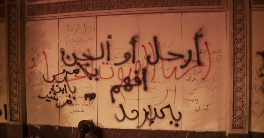 Anti-Morsi graffiti in December 2012